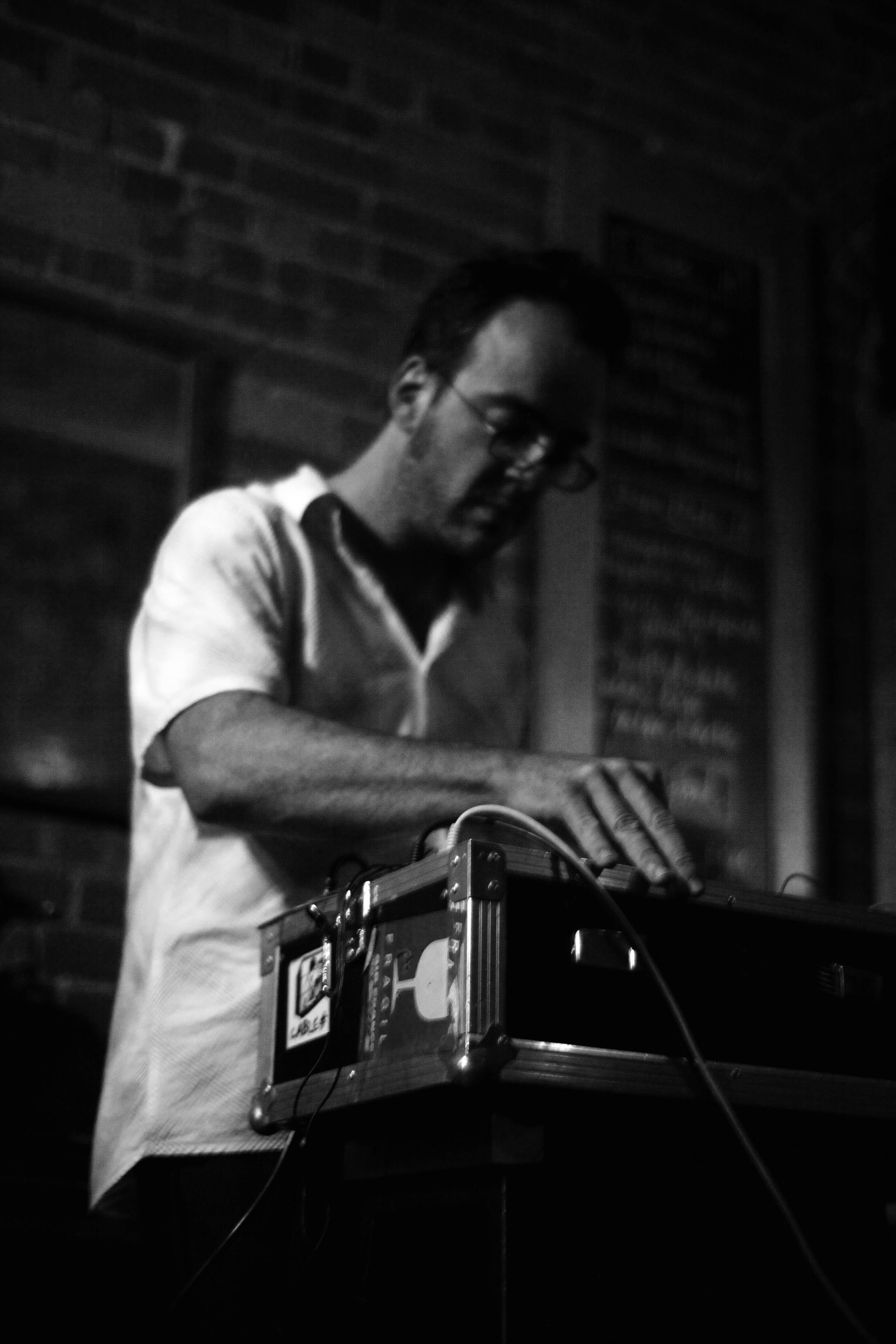 Anthony Pateras performing live in Melbourne 2012, by Aaron Chua